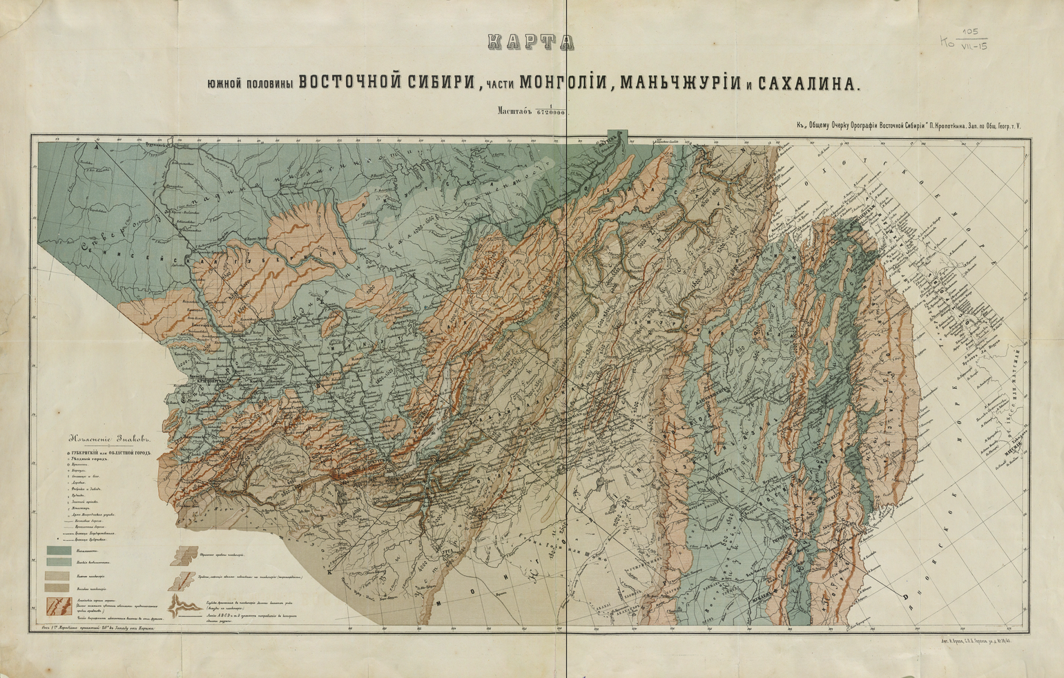 Map of the Southern Half of Eastern Siberia and Parts of Mongolia, Manchuria, and Sakhalin: For a General Sketch of the Orography of Eastern Siberia.